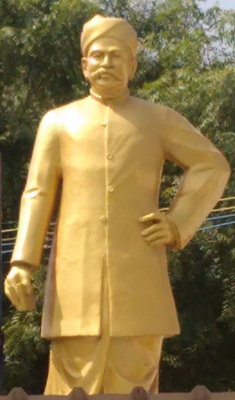 Umamahesvaran statue உமாமகேசுவரன் சிலை